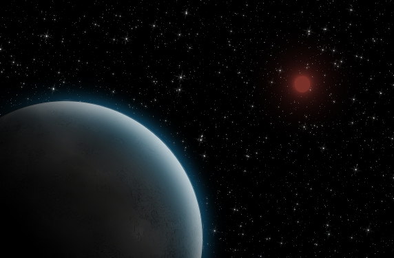 Artist's impression of exoplanet GQ Lupi b.